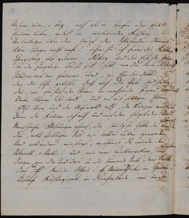 Manuscript of Friedrich Hölderlin: Der Archipelagus, page 14. From Homburg